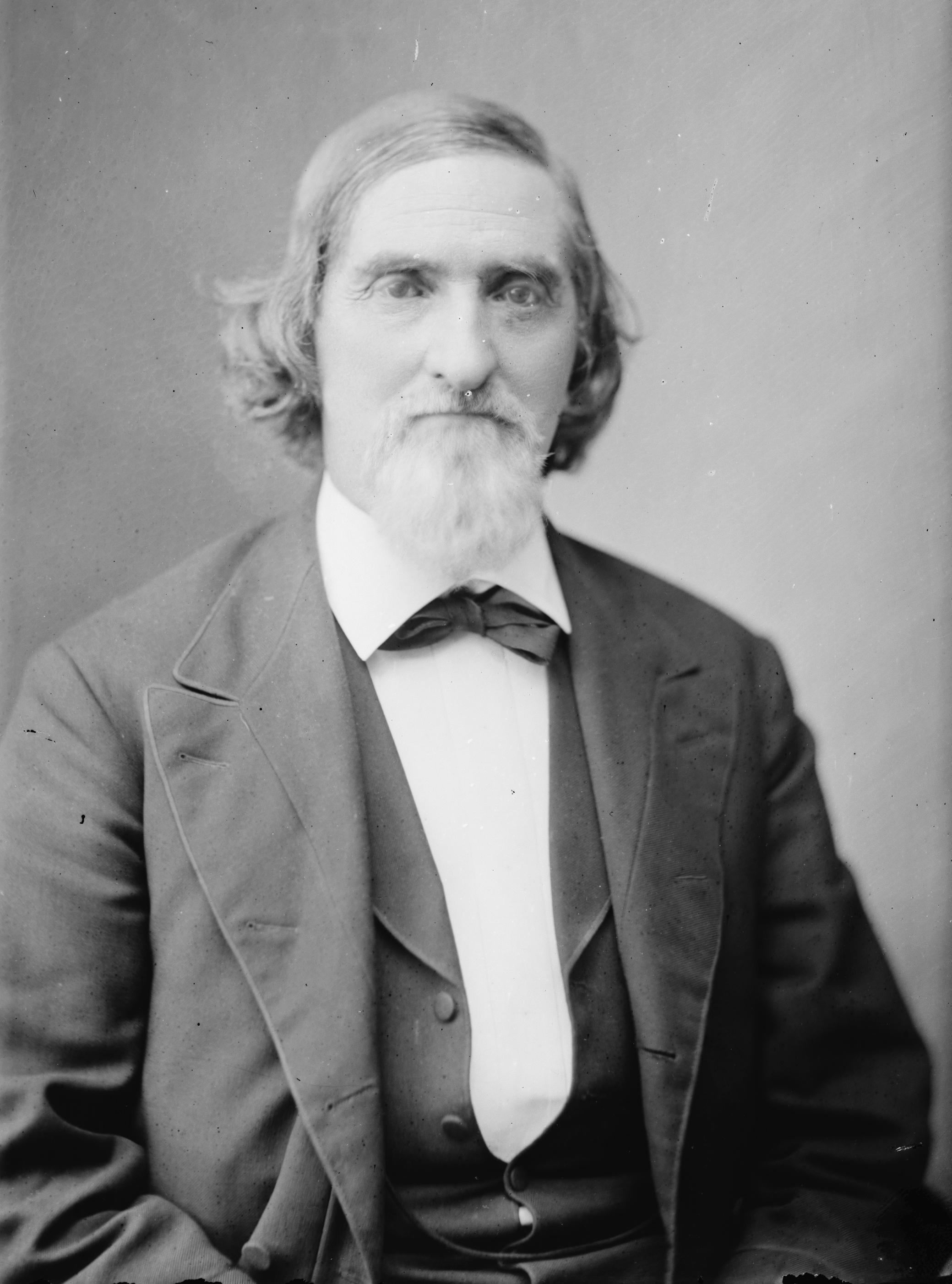 Richard L. T. Beale. Library of Congress description: "Hon. Richard Lee T. Beale, Rep of VA Gen in C.S.A." Note: Richard Lee Turberville Beale ( May 22, 1819 – April 21, 1893) was a lawyer, three-term United States Congressman from the Commonwealth of Virginia, and a brigadier general in the Confederate States Army during the American Civil War. (This summary was created using Commons SumItUp)